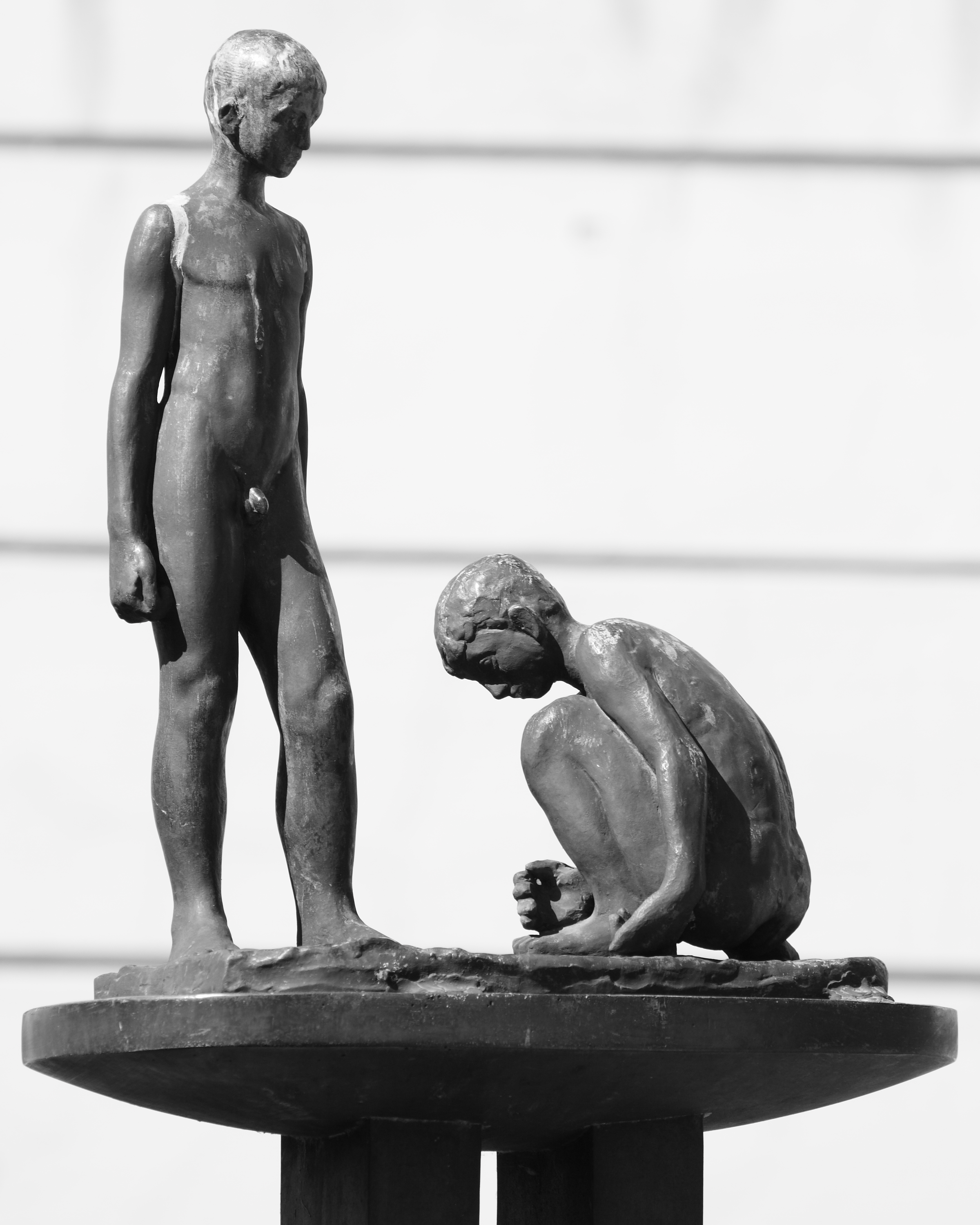 Boys at play, bronze by Béni Ferenczy (1947), permanently installed in the downtown of Székesfehérvár